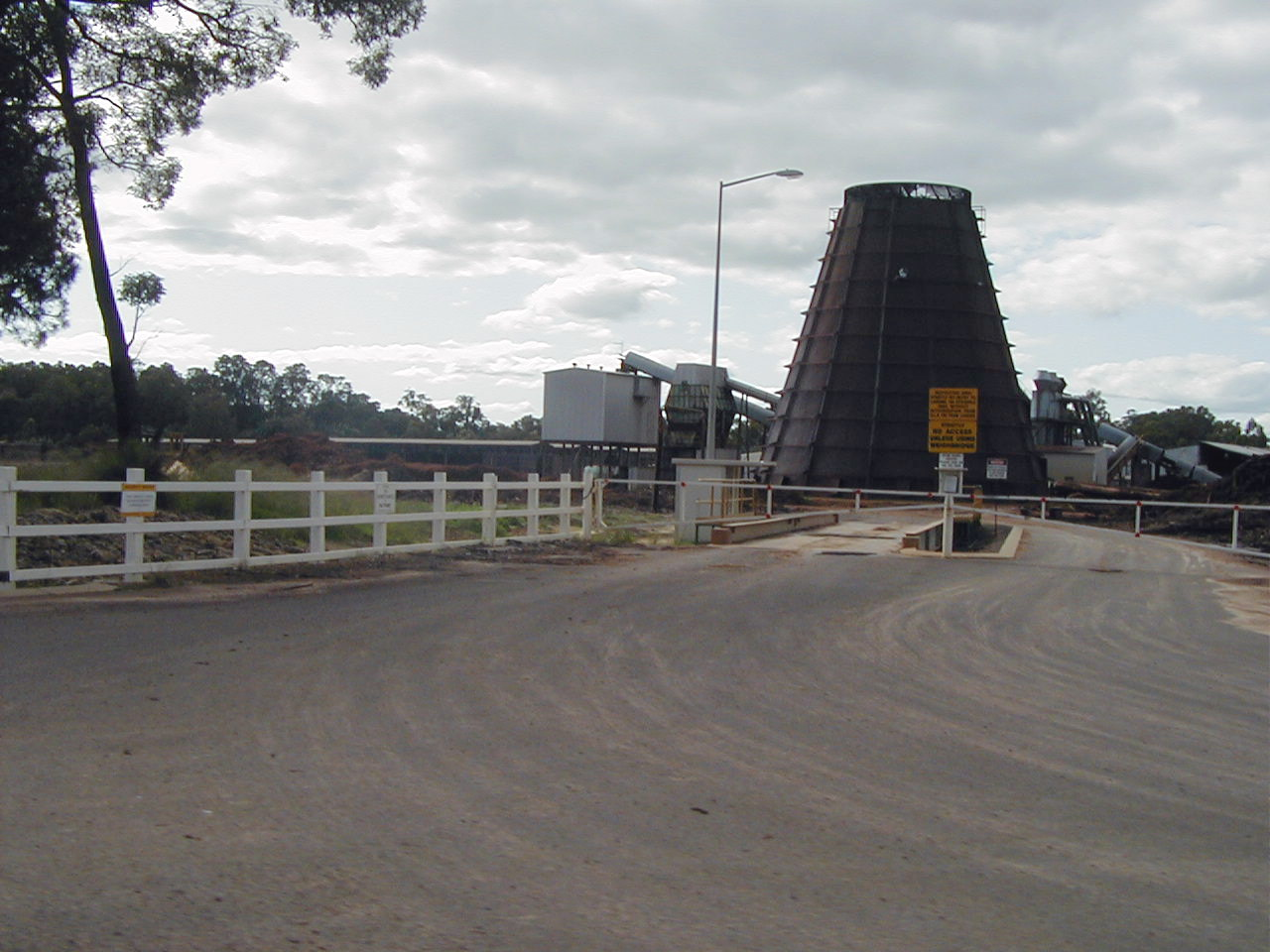 Timber mill - Yarloop, Western Australia.